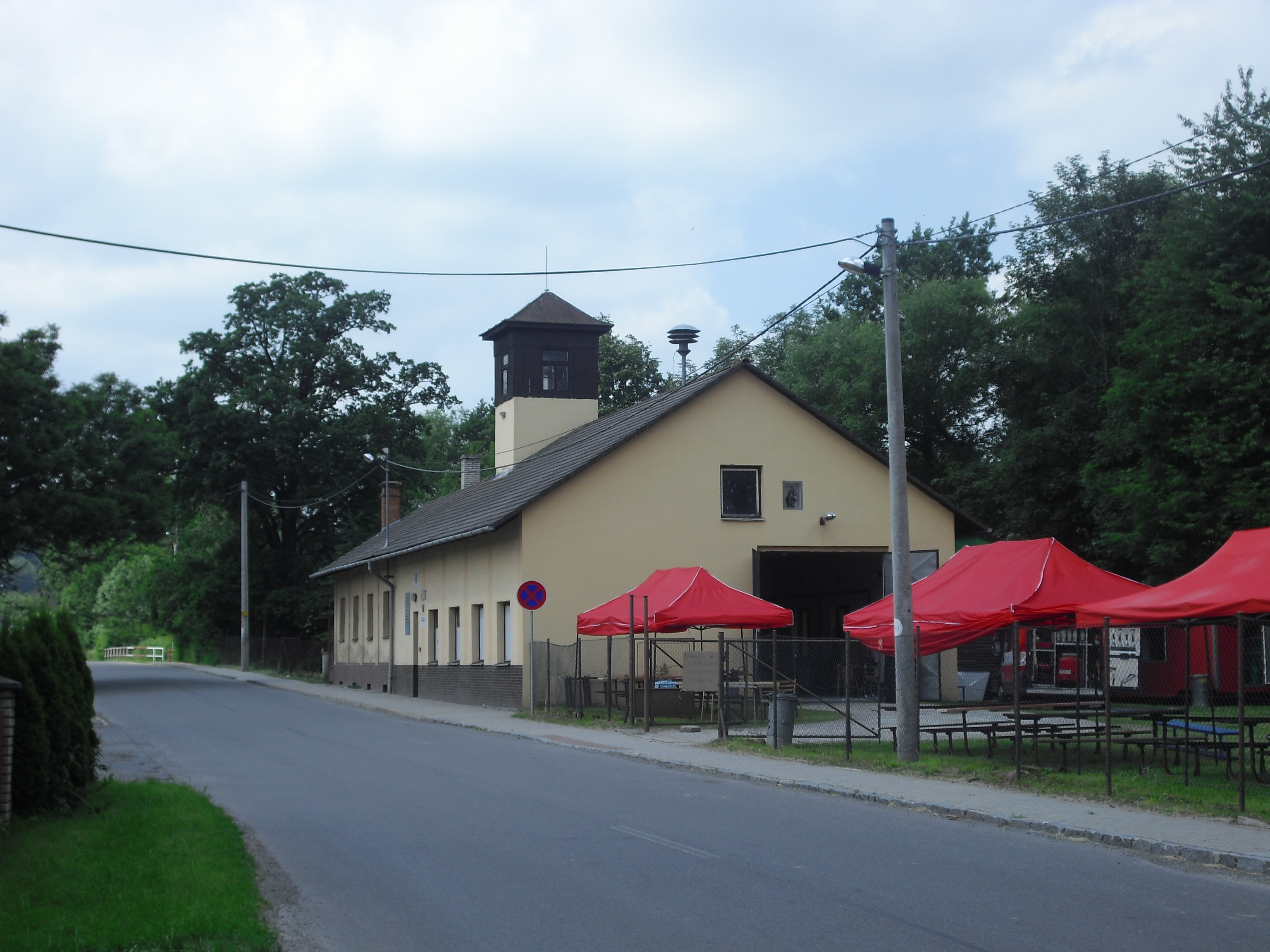 Fulnek, Nový Jičín District, Czech Republic, part Jerlochovice. Fire station.